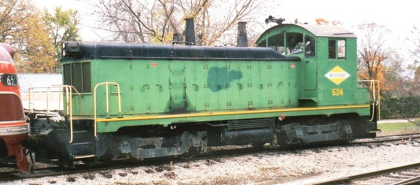 Midland Railway of Baldwin City, Kansas (MLRX) locomotive #524 Currently privately owned, and operated by the Midland Railway. EMD model NW2 – built in Aug 1946 for the CB&Q as their #9227 Rebuilt by BN and renumbered #524 BN’s green and black paint scheme Photo taken by Russell Meier on October 31, 2004 in Baldwin City, Kansas, on the Midland Railway. This image was scanned from a Kodak Max Versatility ASA 400 print. The photo was cropped and brightened before uploading to Wikipedia.